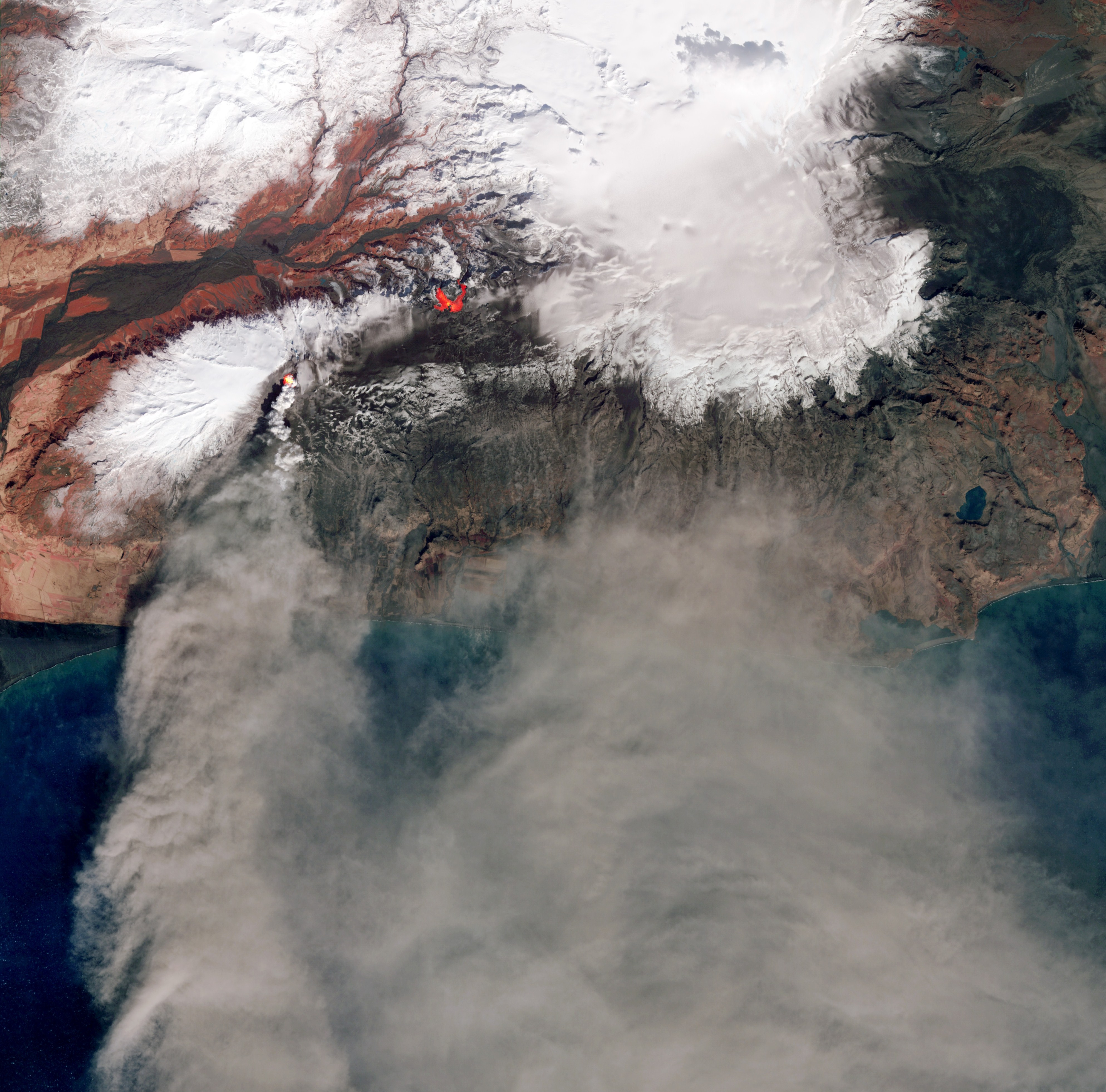 This image shows both the eruption plume and the heat signature of lava at the volcano’s summit and at nearby Fimmvörduháls, the site of a precursor eruption. The heat signature shows a rough estimate of temperature, with yellow being hottest and red coolest. The signature at Eyjafjallajökull is a concentrated circle without a river of lava, supporting the Icelandic Coast Guard’s observation that lava had not started to flow from the volcano.